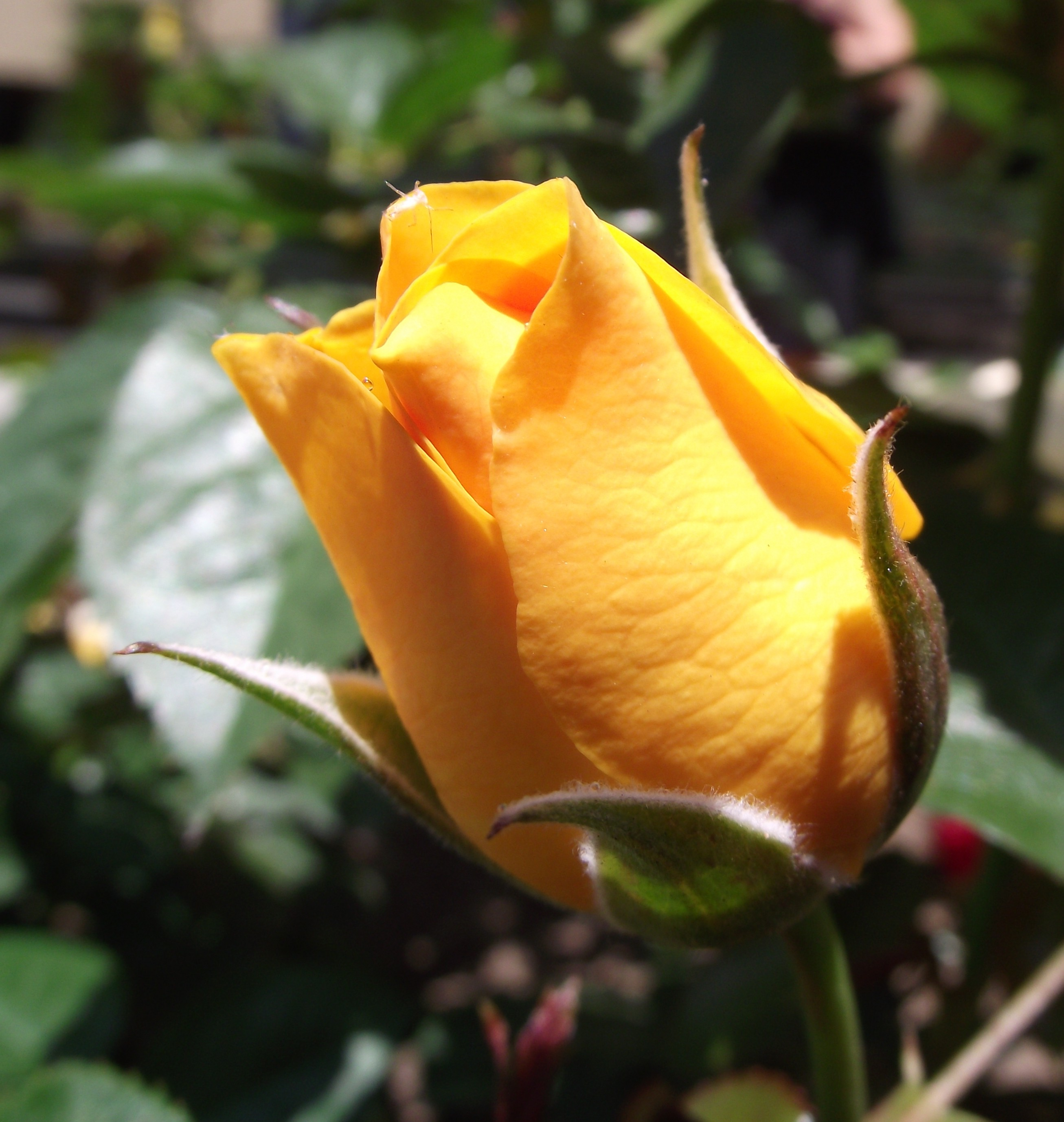 Rosa 'Julia Child' at the San Diego County Fair, California, USA. Identified by exhibitor's sign.